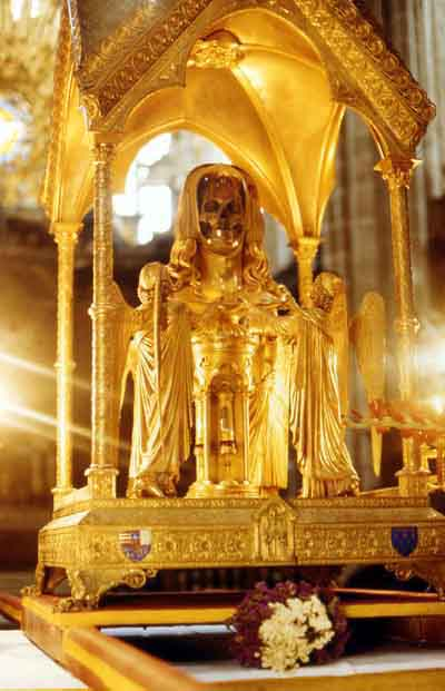 Reliquary with a supposed head of St. Mary Magdalena, made by Reviol in 19th cent, at Saint-Maximin-de-la-Sainte-Baume basilique.